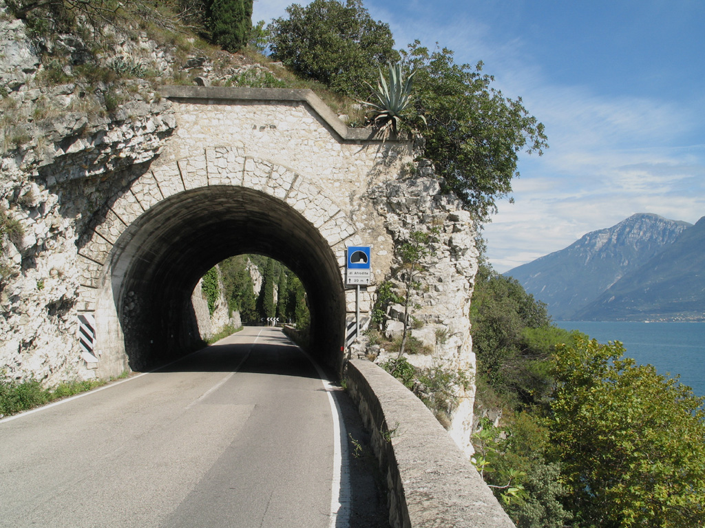 Gardesana tunnel near the village of Gargnano, Lake Garda/Italy